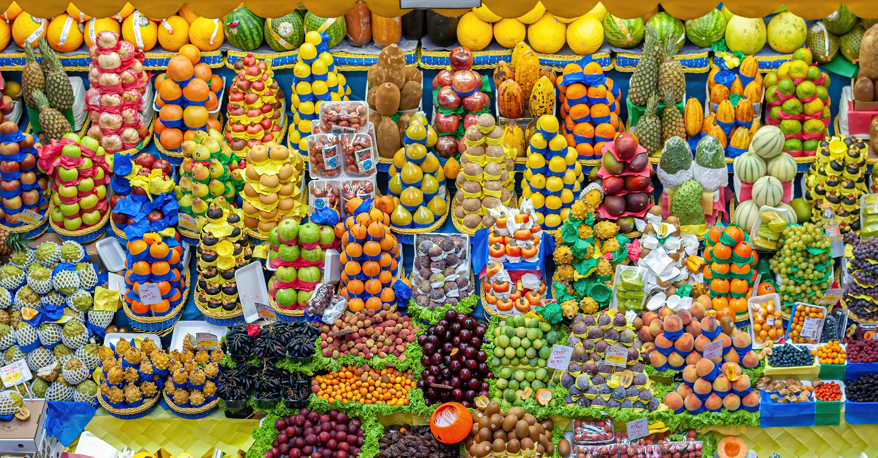 Greengrocer in Municipal Market of São Paulo city